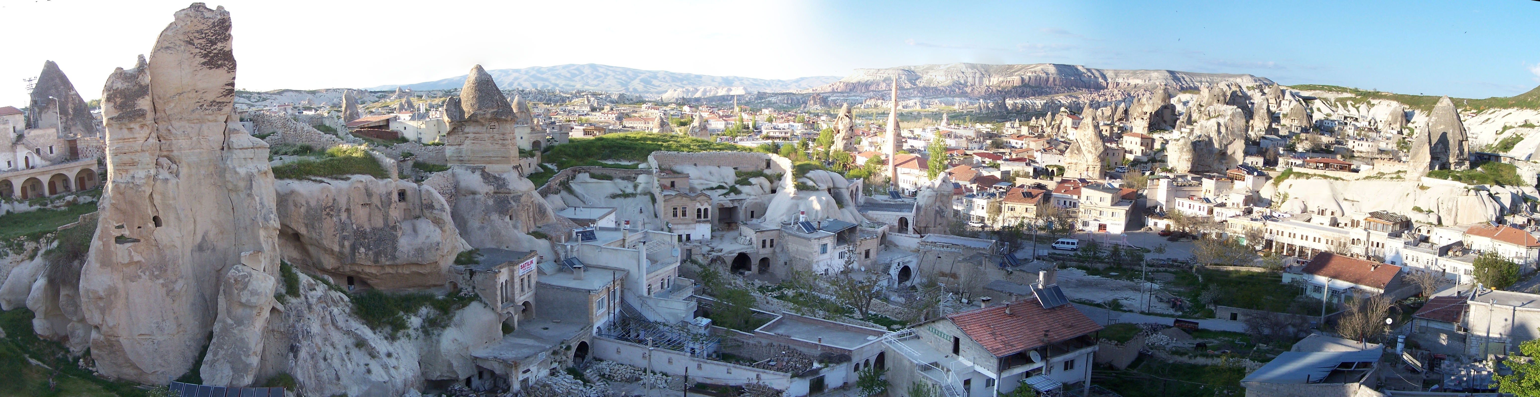 Panorama of Goreme